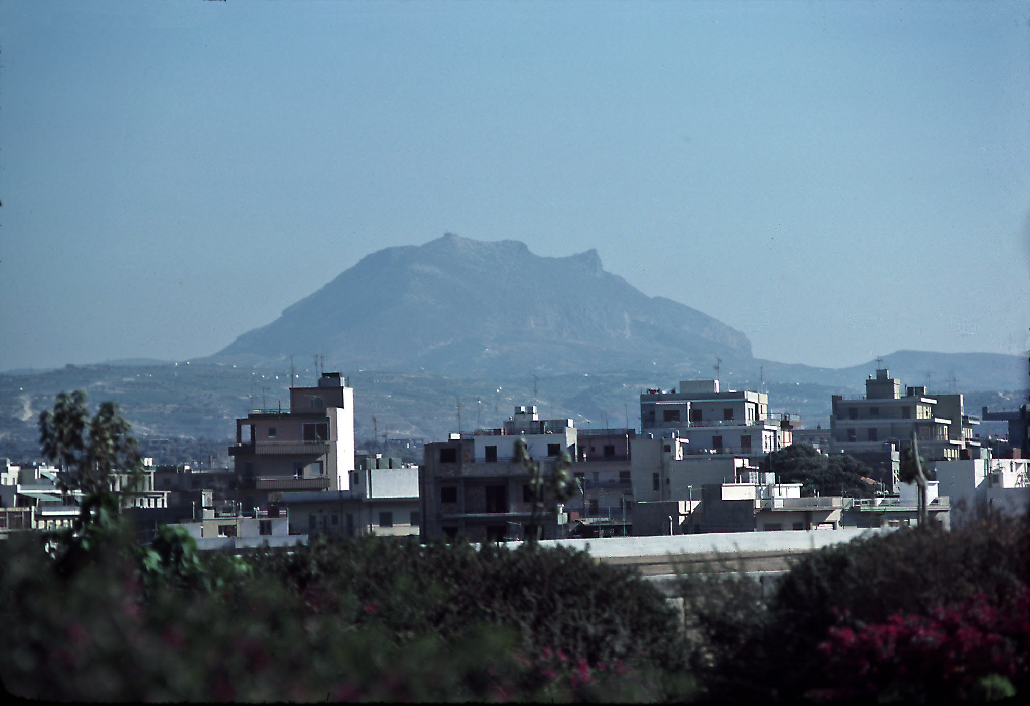 Mt. Juktas from the city of Iraklion, 1977